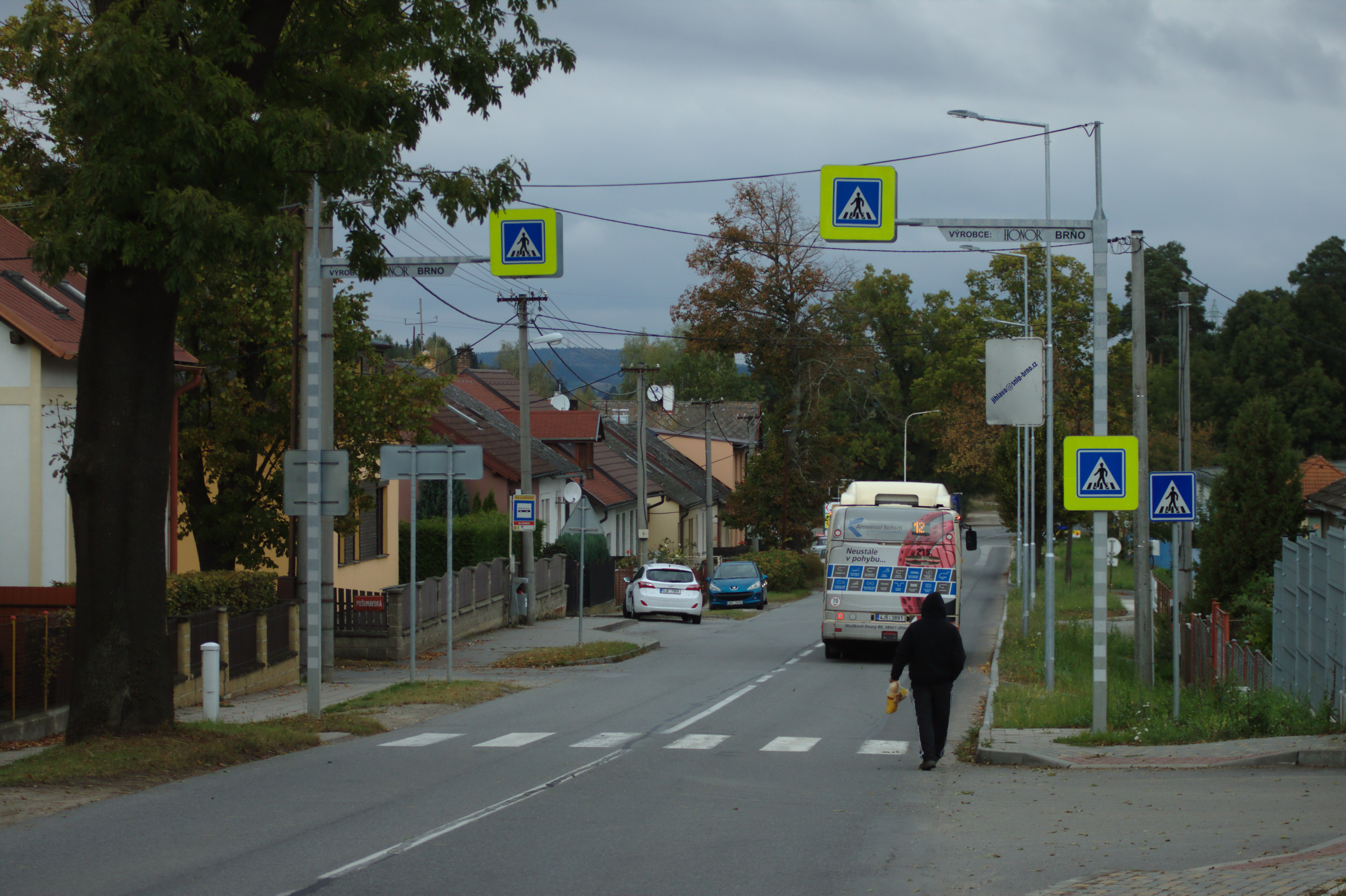 Northern part of the village of Bedřichov, Vysočina Region, CZ